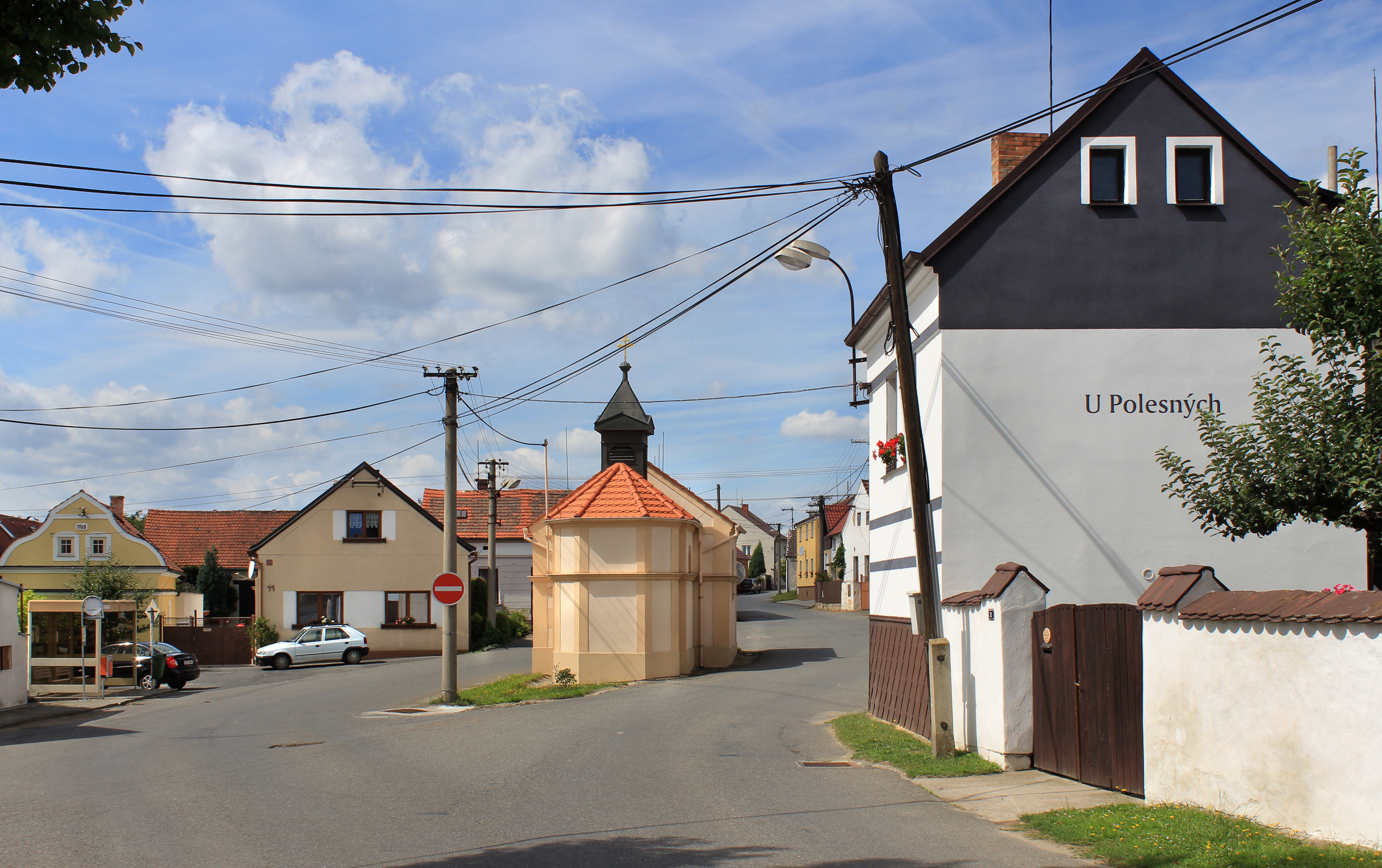 Common in Čermná, Czech Republic.